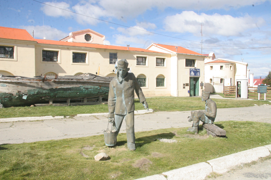 Museo Maritimo de Ushuaia